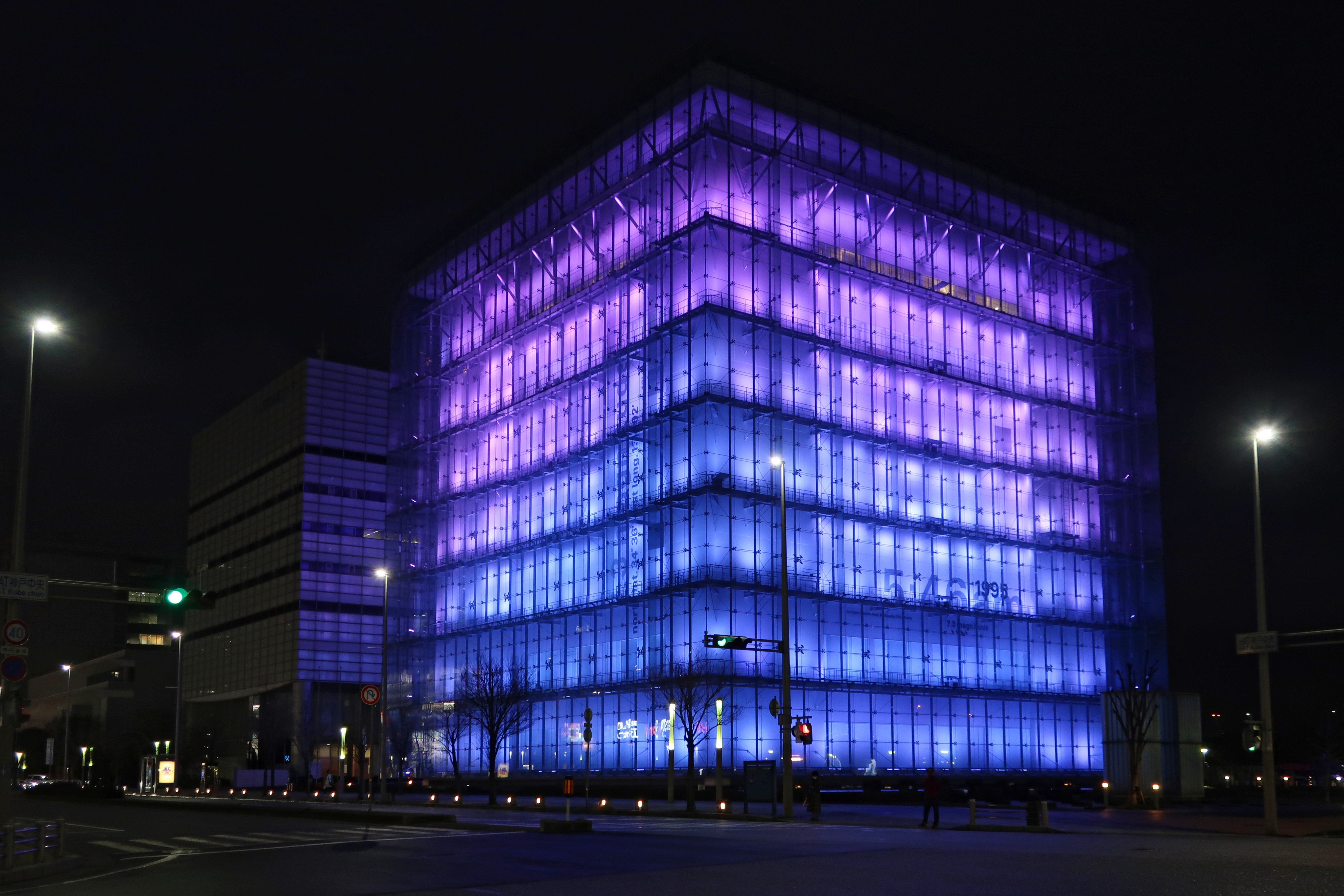 Disaster Reduction and Human Renovation Institution (人と防災未来センター西館), Kobe, Hyogo prefecture, Japan. Canon PowerShot G9 X Mark II